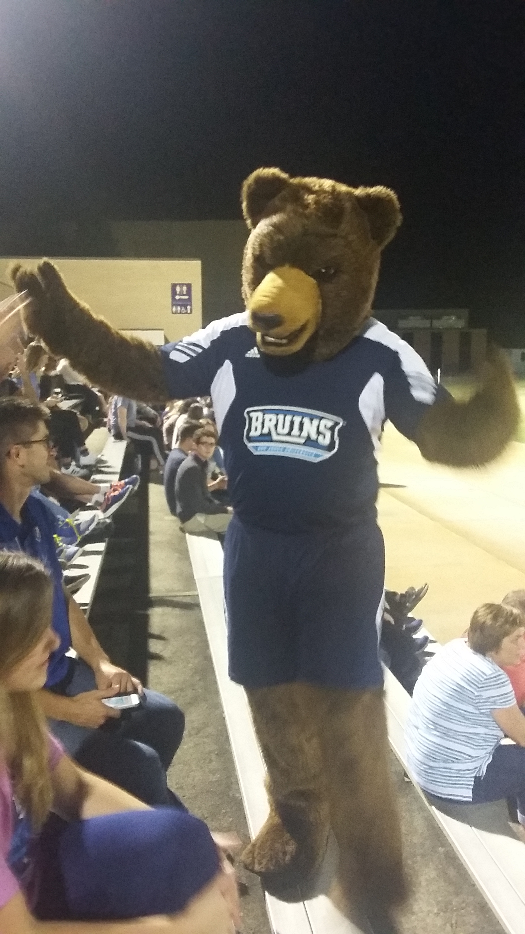 A girl dressed as a brown bear to serve as Bob Jones University's Bruin mascot at a home game in Greenville, South Carolina.